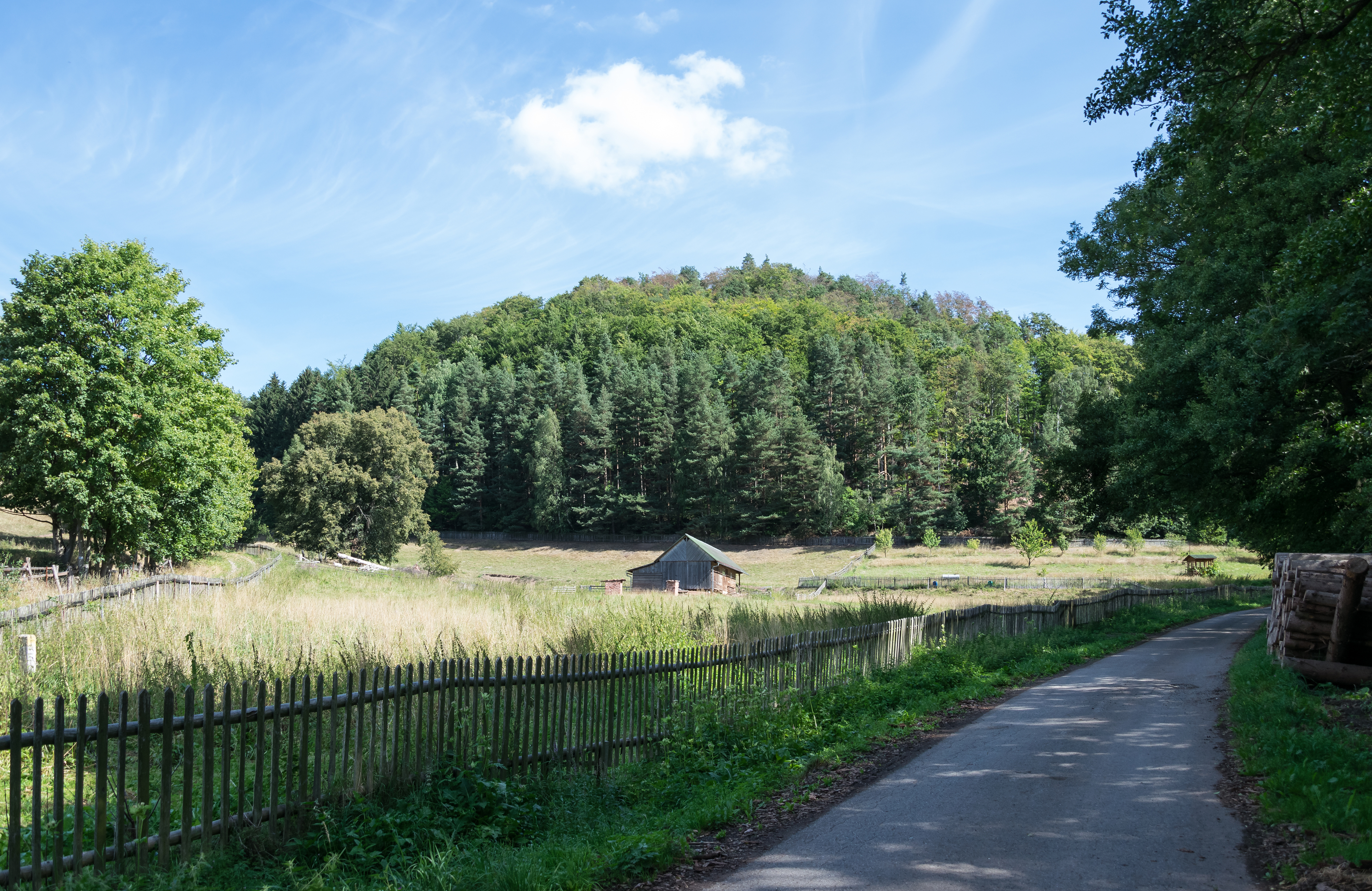 Lewińska Czuba, Lewińskie Hills, Sudetes This is a photography of protected area with CRFOP ID PL.ZIPOP.1393.PN.15